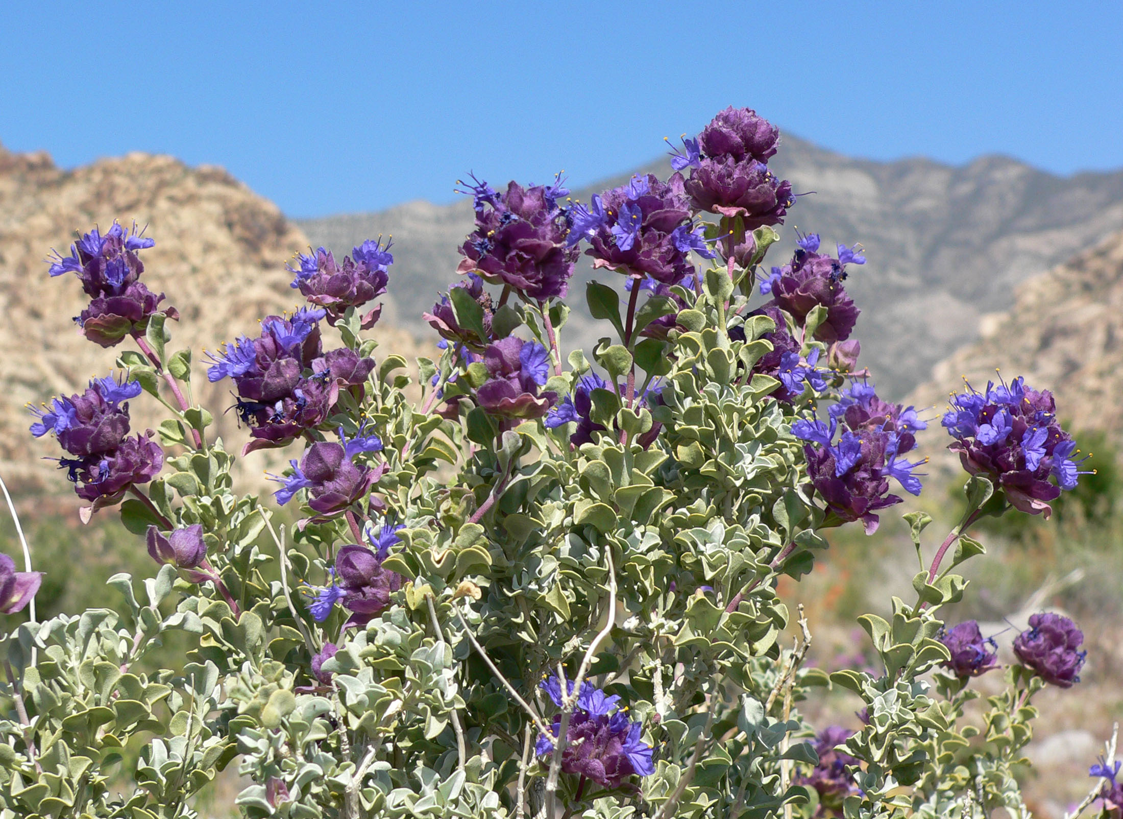 Salvia dorrii var. dorrii near the Icebox Canyon trailhead, Red Rock Canyon, Spring Mountains, southern Nevada (elev. about 1300 m)